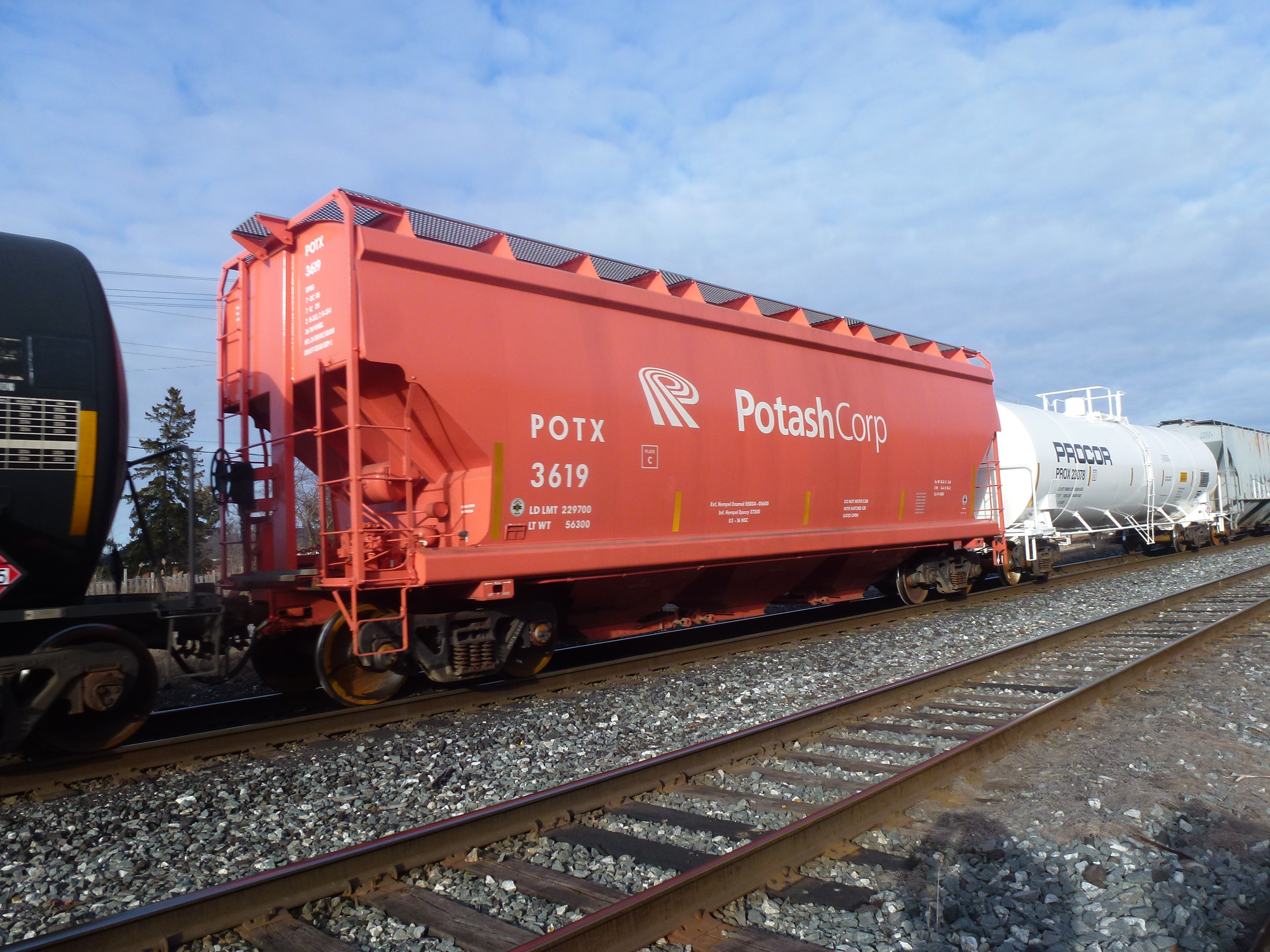 A covered hopper car owned by the now defunct company PotashCorp in a long Canadian Pacific manifest train passing through Bolton, Ontario on 5 March 2018.